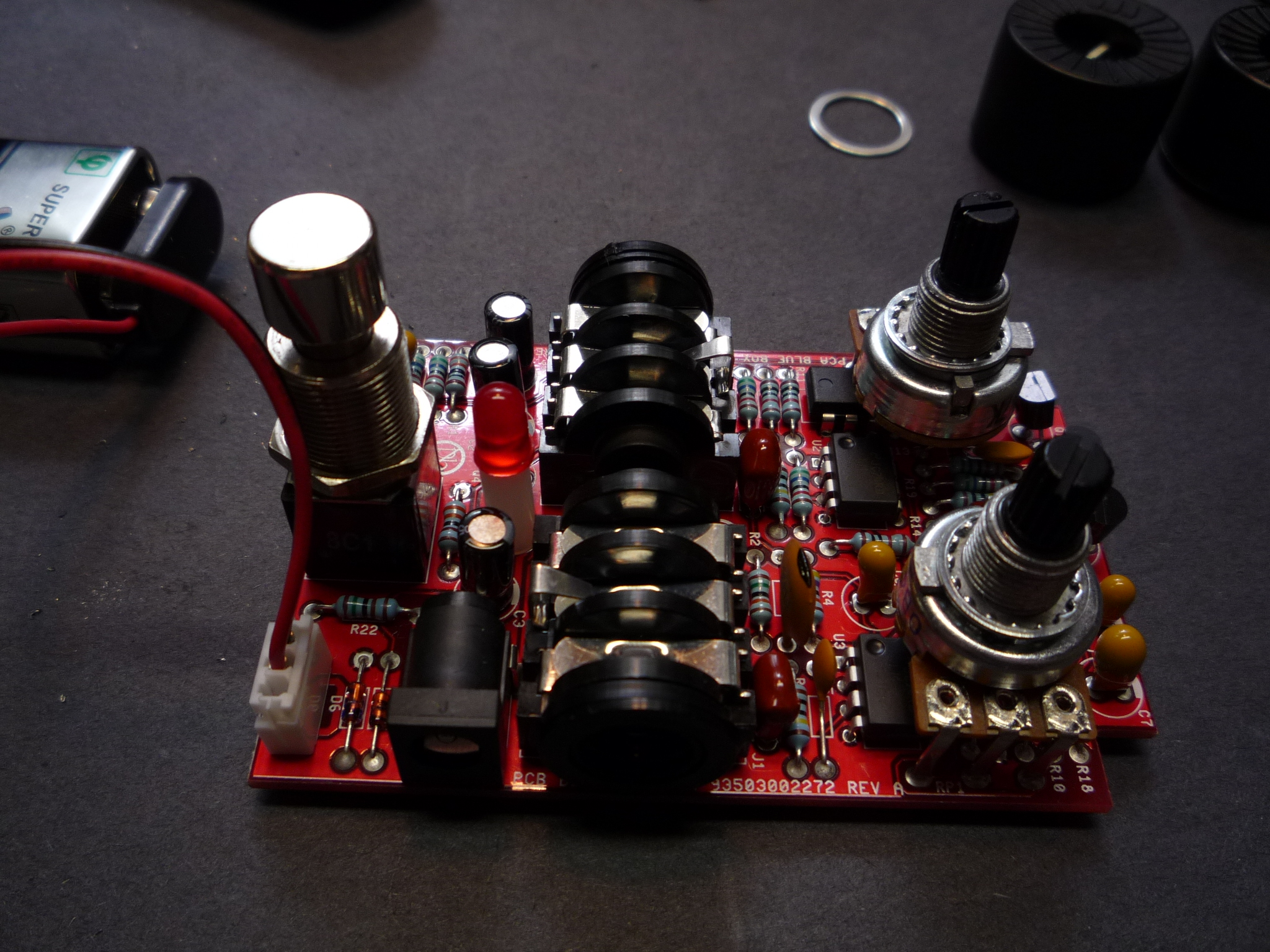 MXR Blue Box, circuit board top.